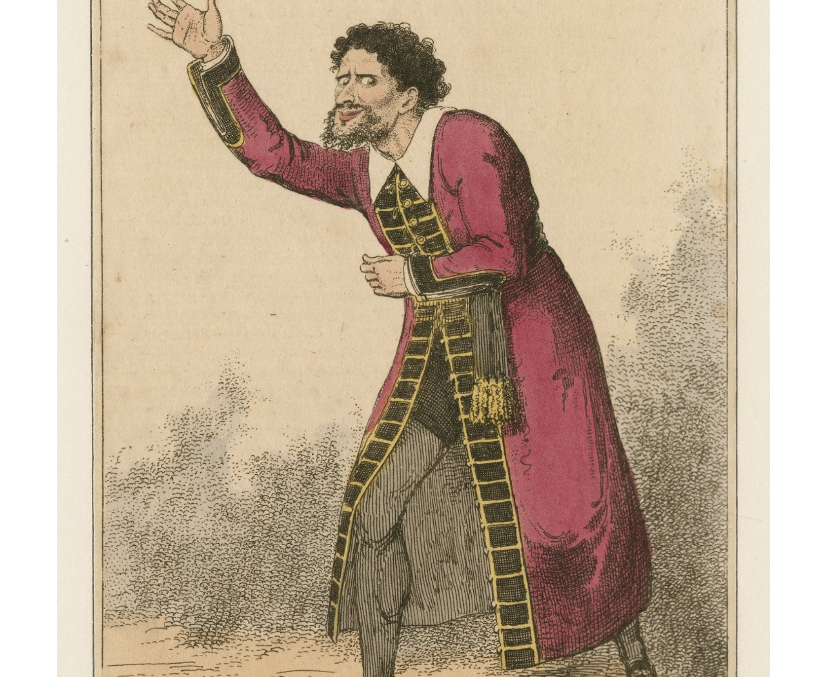 This is an illustration of Edmund Kean as the character of 'Barabas' from Christopher Marlowe's play, 'The Jew of Malta'